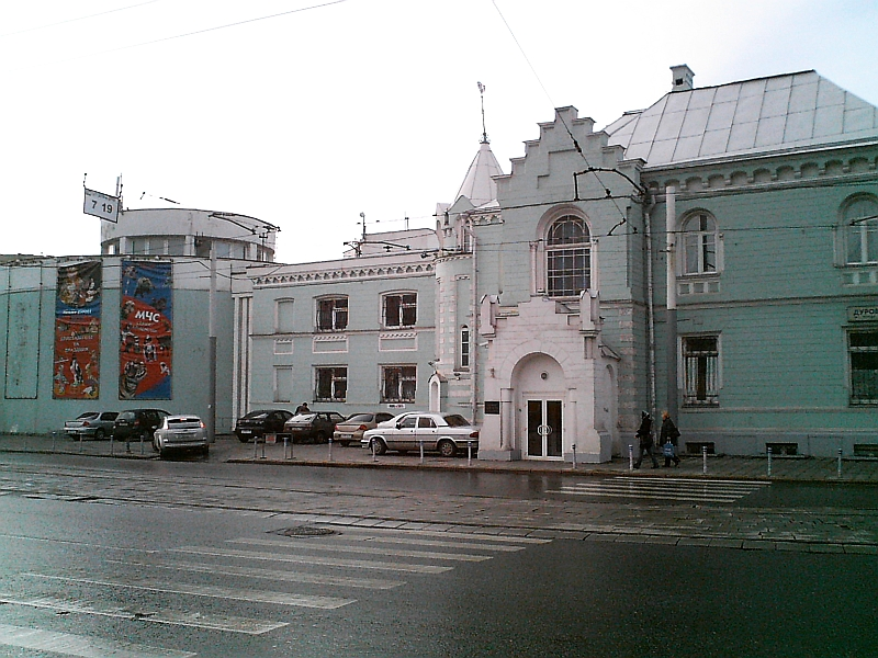 Durov's Animal Theatre in Moscow, Russia